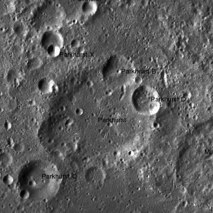 Parkhurst lunar crater - LROC image